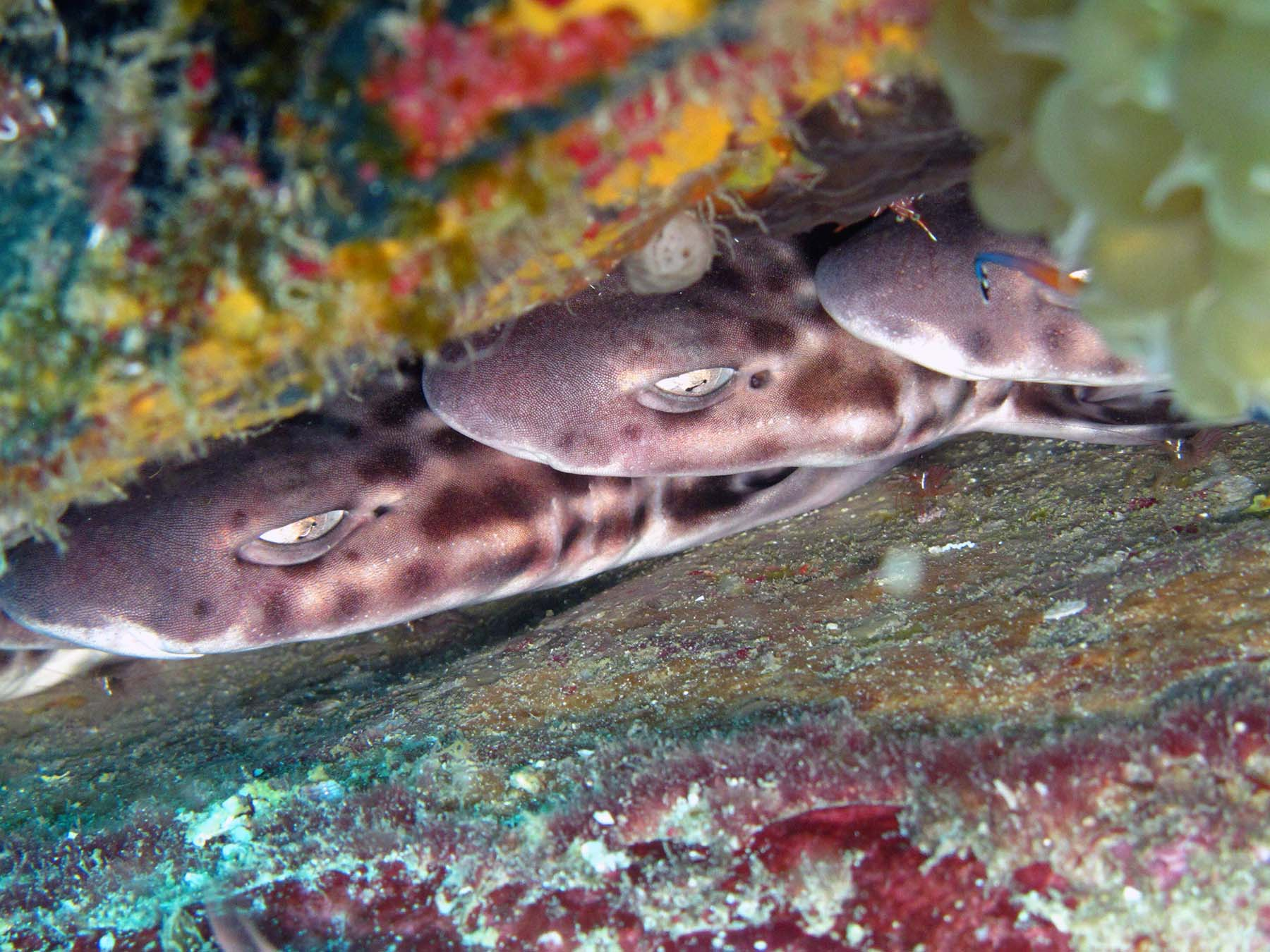 16 sleeping Coral catsharks (Atelomycterus marmoratus).